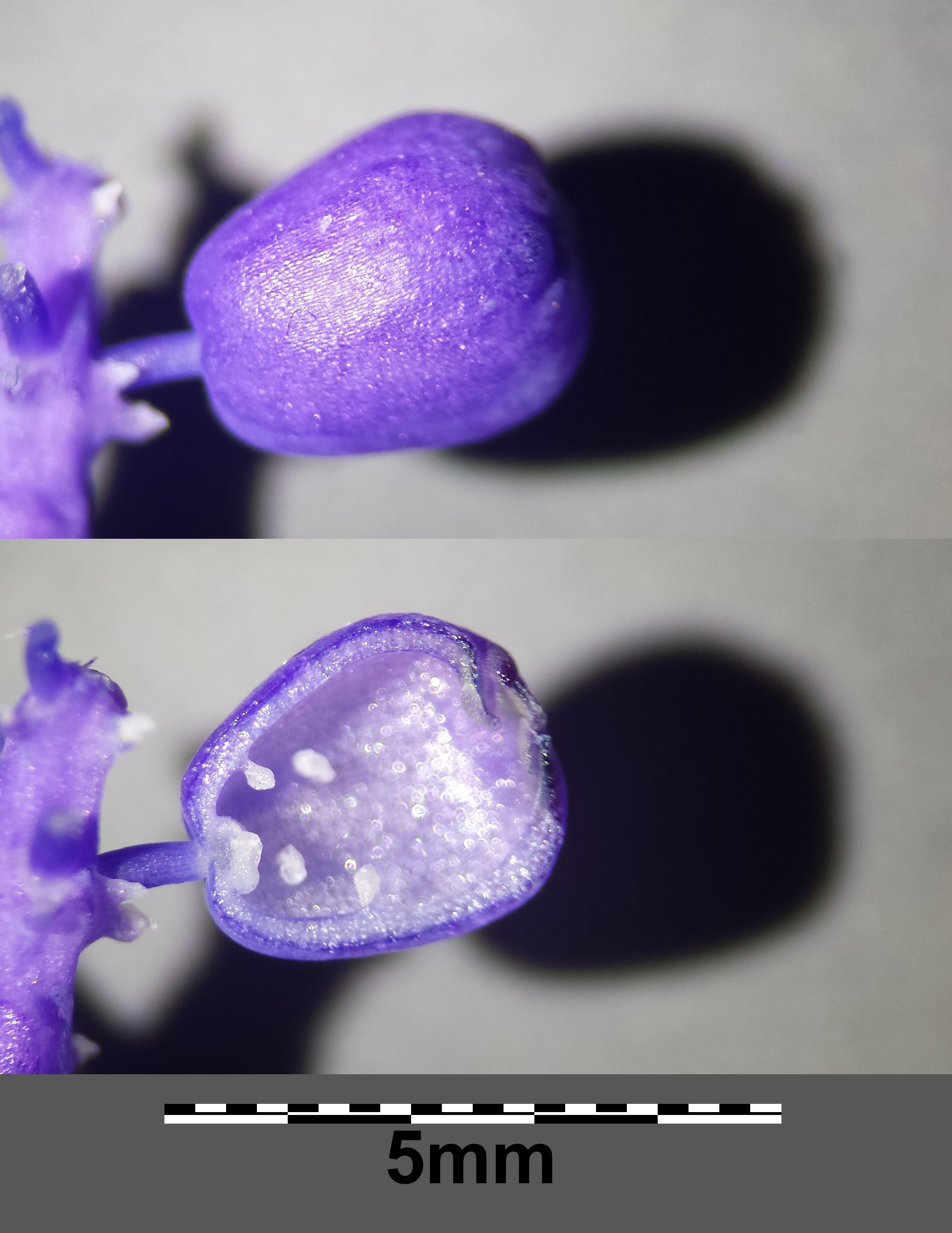 Sterile flower Taxonym: Muscari neglectum ss Fischer et al. EfÖLS 2008 ISBN 978-3-85474-187-9 Location: Neue Donau, Vienna-Floridsdorf - ca. 160 m a.s.l. Habitat: dry slope